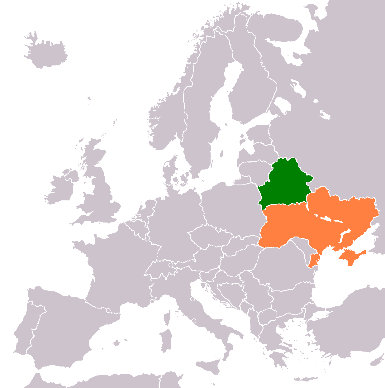 Map of Europe, highlighting Belarus and Ukraine.